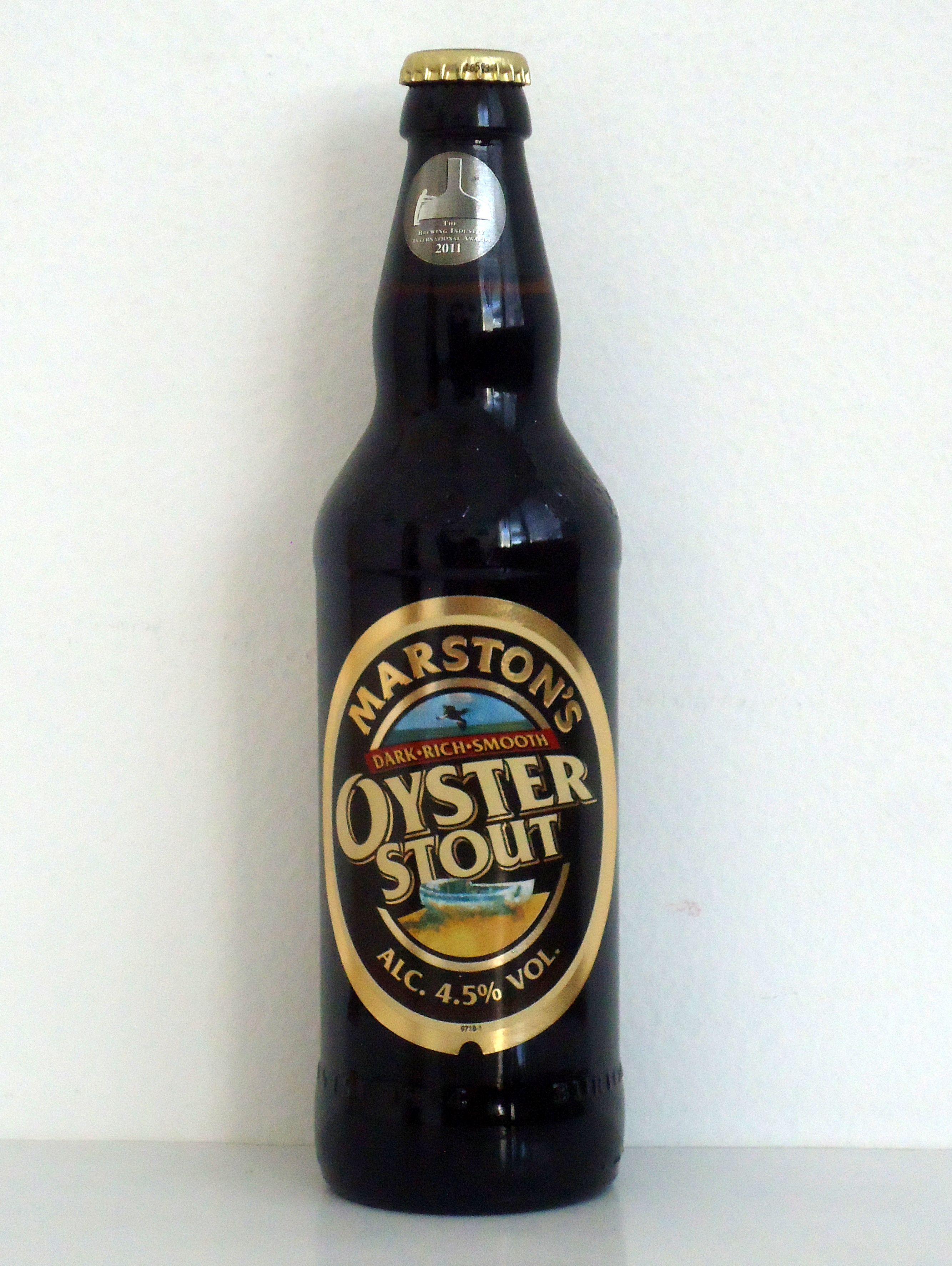 Marston's Oyster Stout